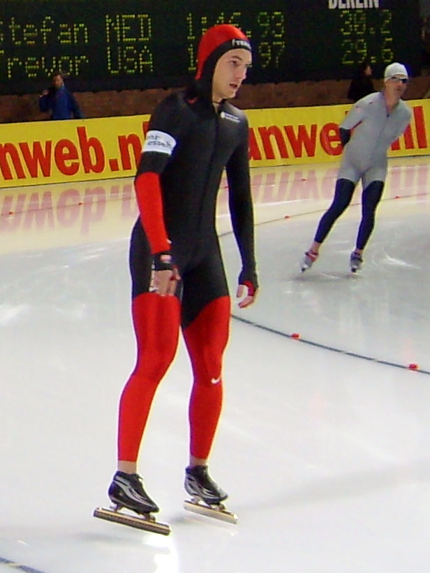 Mikael Flygind Larsen (NOR) befor 1500 meters world cup speedskating race in Berlin, Germany.